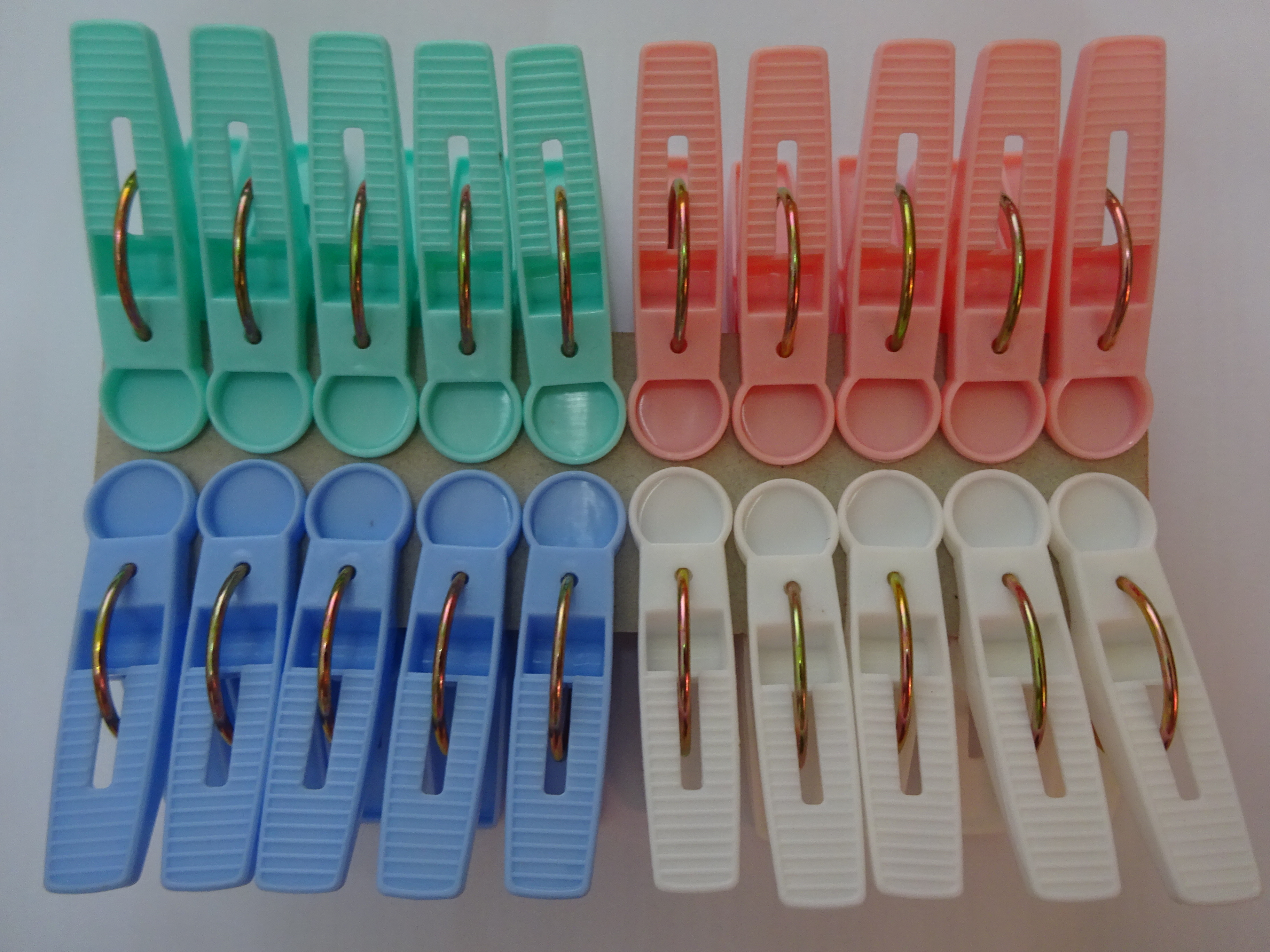 HK Plastic clothes pegs colors Sept 2016